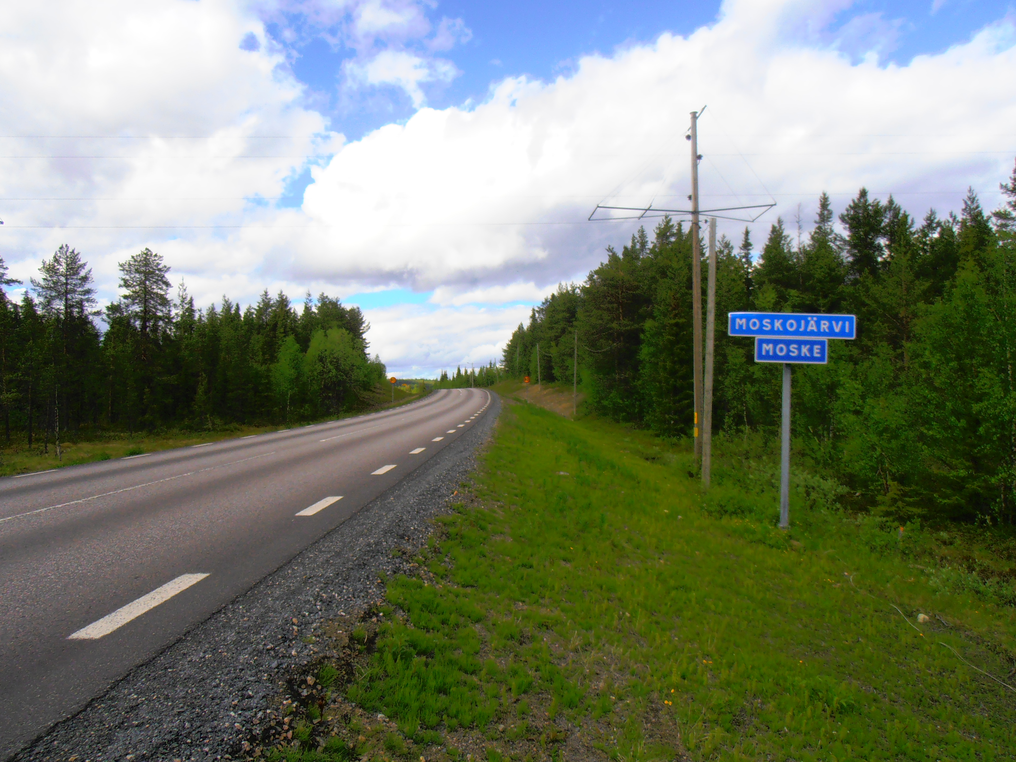 Moskojärvi, Gällivare